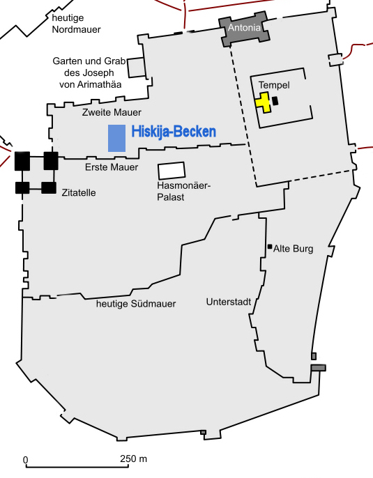 Jerusalem in the 1st century CE